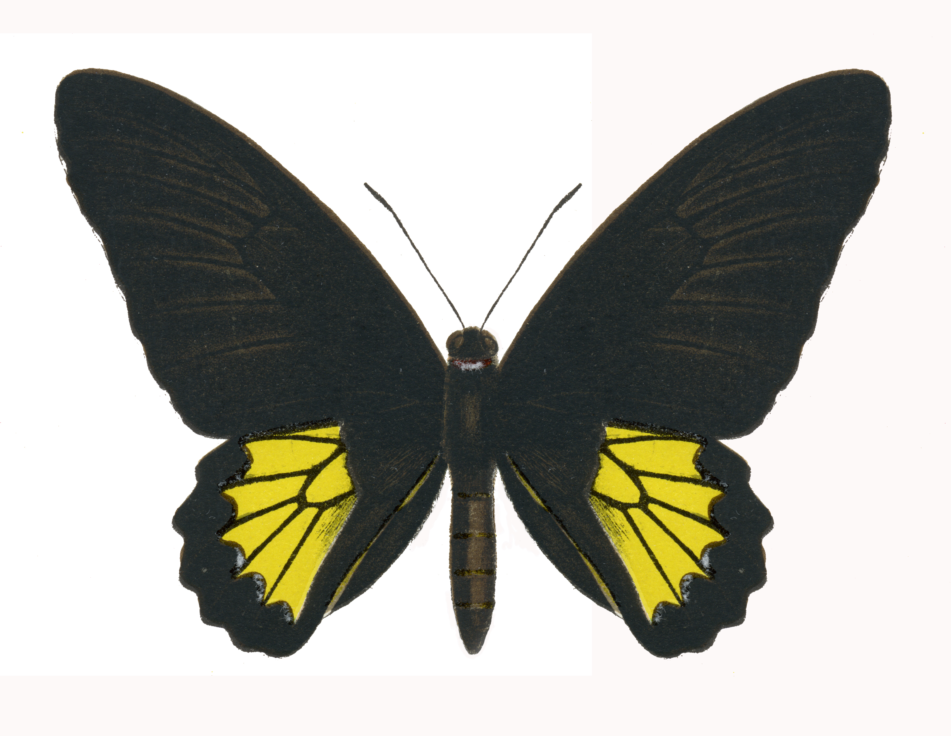 Sri Lankan Birdwing, male, upperwing